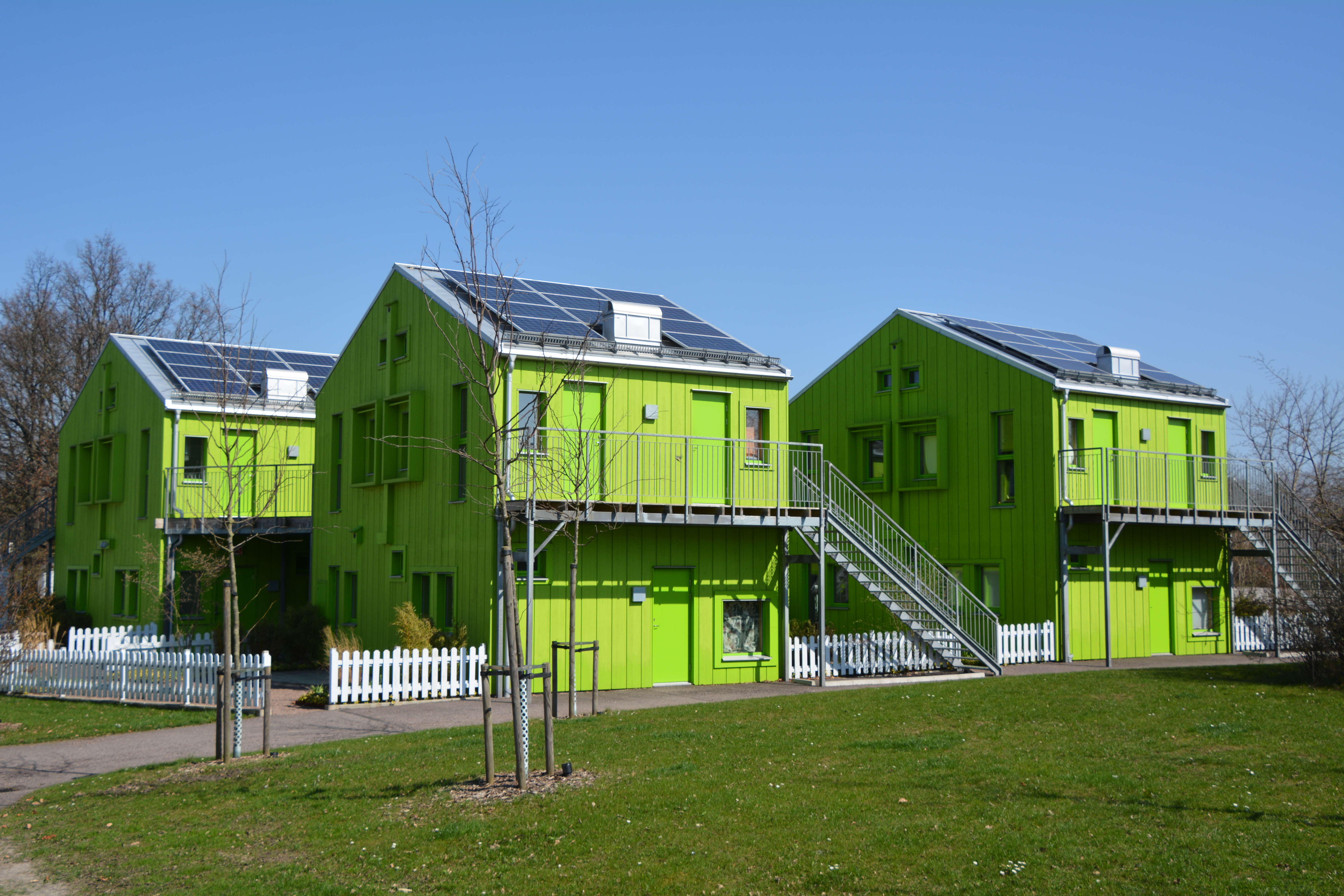 Akademiska Föreningens studentbostäder Kämnärsrätten på Norra Fäladen i Lund, byggda 2017